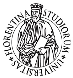 logo unifi